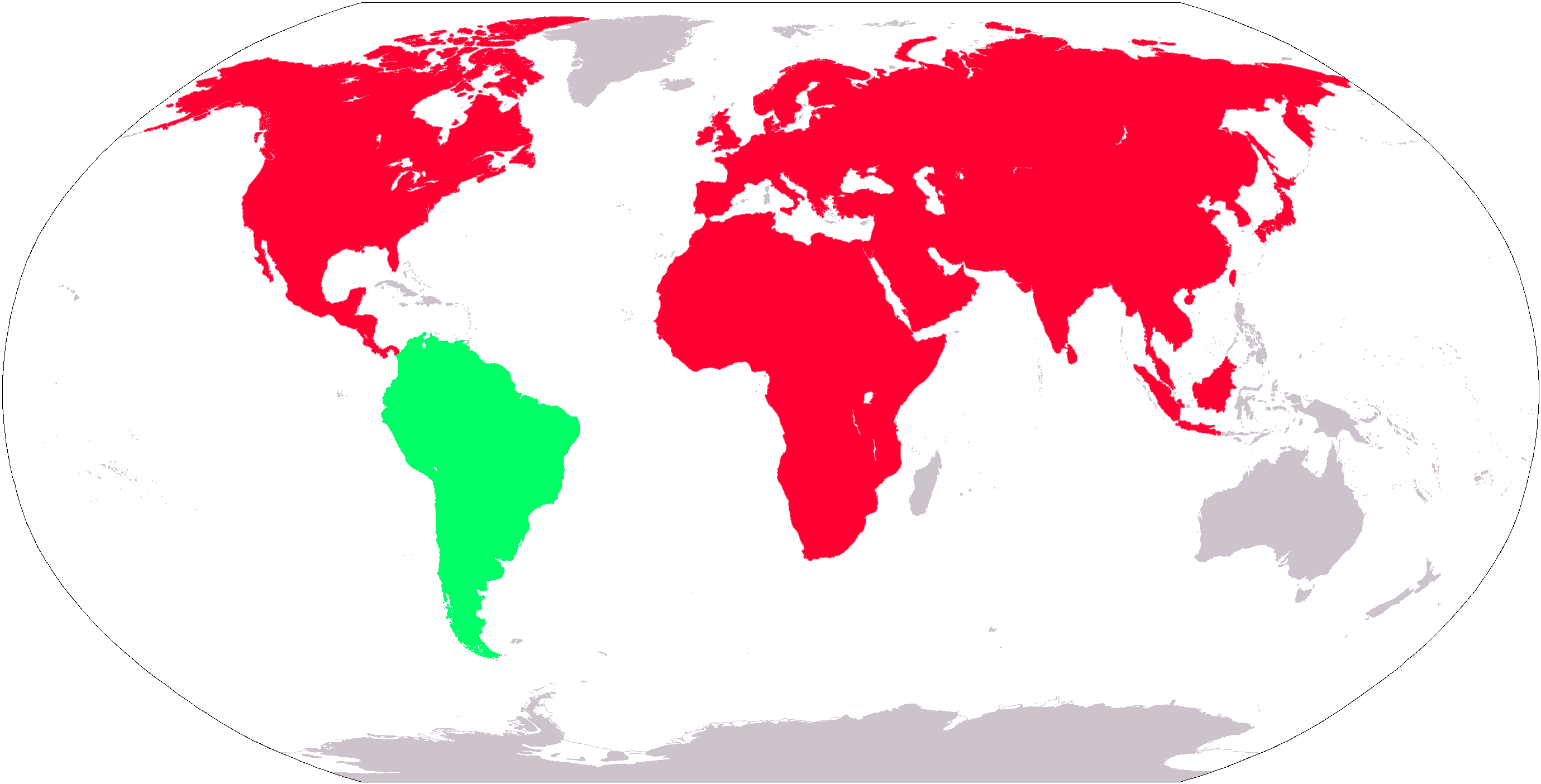 Map shows land areas over which ancestors of Neotropic (green) and Nearctic (red) species were able to wander via two-way migrations during the latter part of the Cenozoic Era (prior to the Great American Interchange).